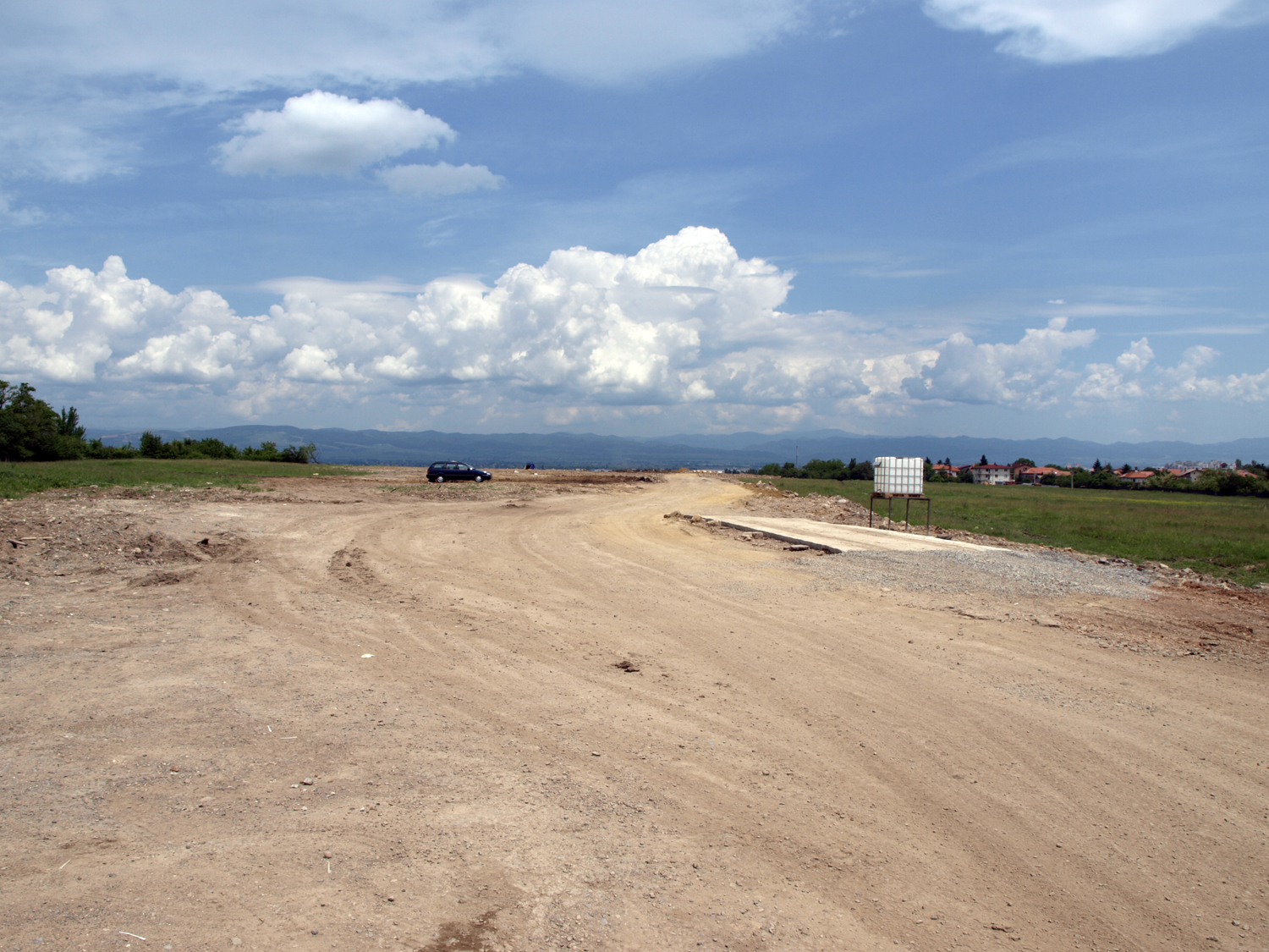 Lyulin Motorway site by May 2010 near Filipovtsi neighborhood, Sofia